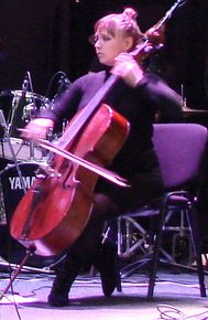 Ludmila Koretskaya, ex-cellist of Flëur